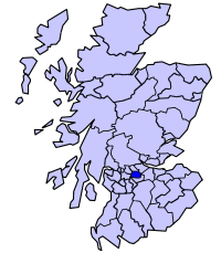 Monklands District 1975-1996.